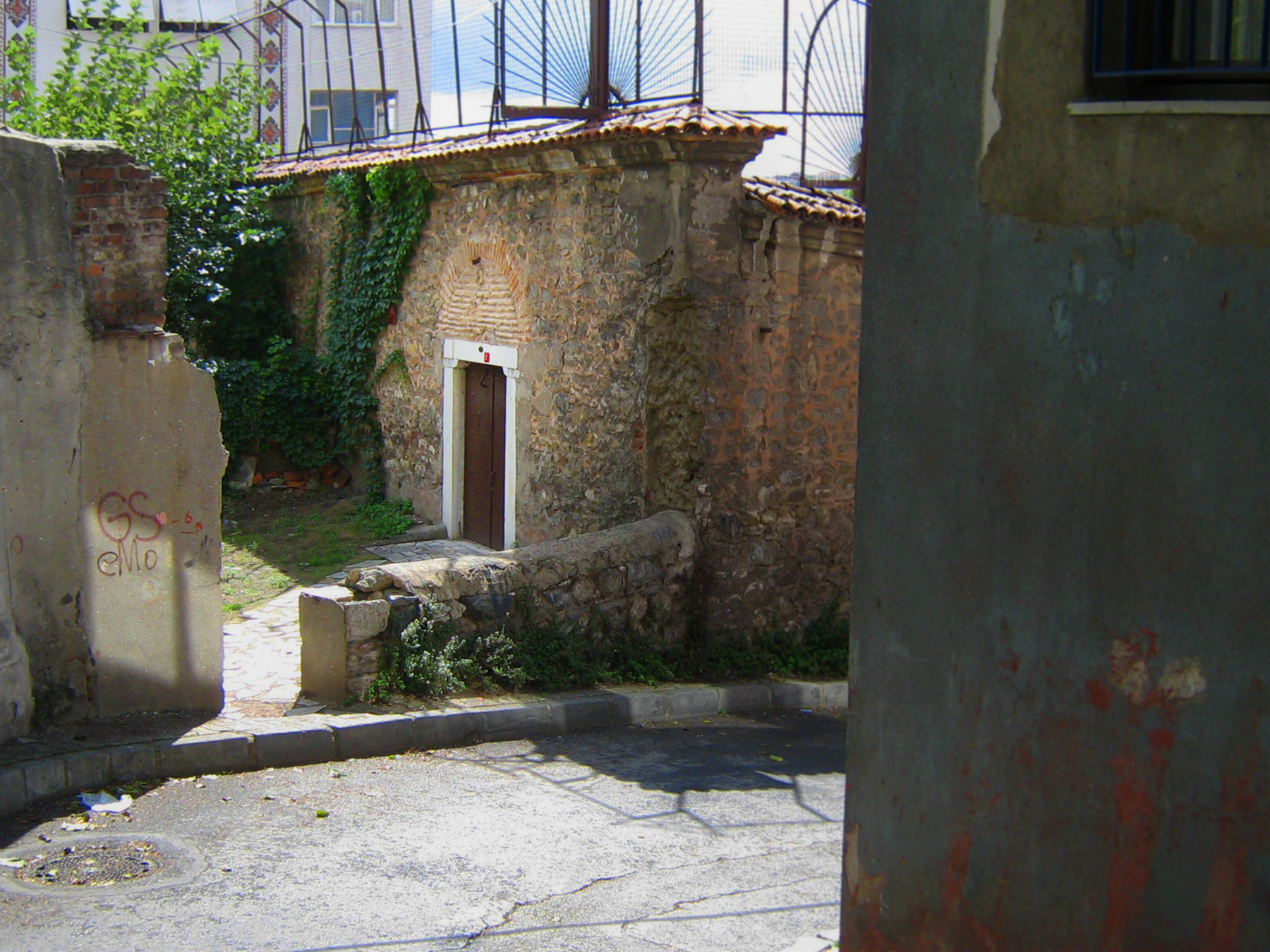 Karaite Synagogue (Turkish: Karahim Sinagogu or Karaim Sinagogu), Hasköy, Istanbul, Turkey. (Appears on some maps as Karahim Kilisesi, Karaite Church.)